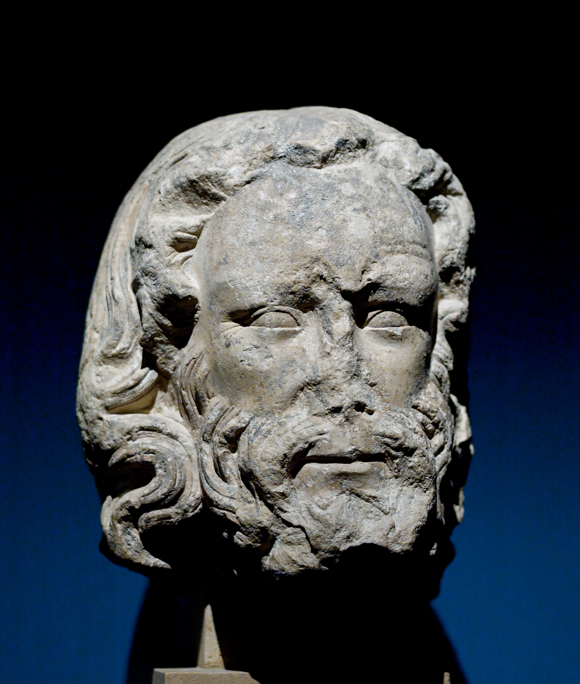 Man head from the Notre-Dame of Paris. Limestone, Paris, middle of the 13th century. Taken down during the French Revolution to be used as building stones, bought and buried by Jean-Baptiste Lakanal for conservation purpose. Found in 1977 during restoration work in the basement of Hotel Moreau, headquarters of the Banque française du commerce extérieur (French bank for external trade), now Natexis Bank.